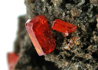 Vanadinite Locality: Hamburg Mine (Hamburg claim; Hamburg prospect; Blake), Silver District, Trigo Mts, La Paz County, Arizona, USA (Locality at ) Size: 4.7 x 3.9 x 2.4 cm. The Mineralogical Record in 1980 had an article on these gemmy and glassy, reddish-orange, barrel shaped crystals. I'm not sure if I have ever seen any for sale, they are so rare. Although the crystals are small, to .35 cm across, but the color and transparency makes them highly desired among U.S. collectors. Said to be from the turn of the 1900s. Ex. Carnegie Museum Collection.